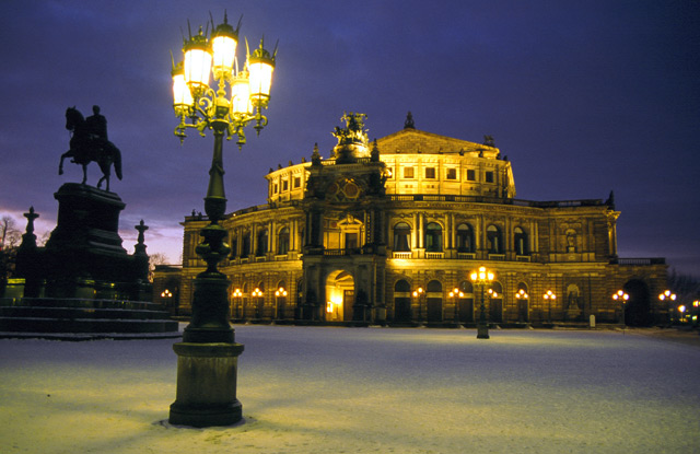 Evening lighting of Semperoper and an equestrian statue of King John in Dresden